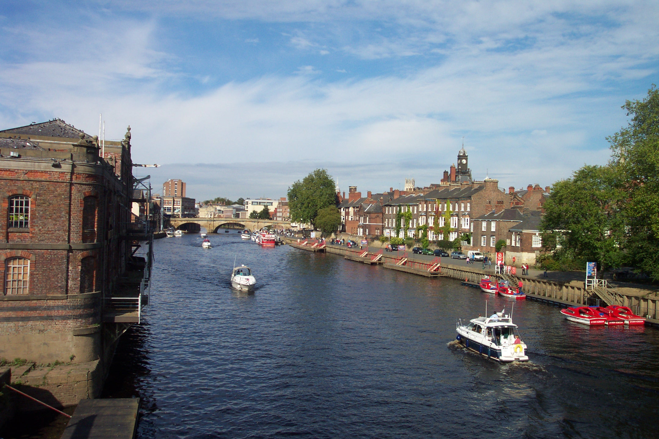 The River Ouse in the city of York, viewed from Skeldergate Bridge with Ouse Bridge in the background. For more information see the Wikipedia articles River Ouse and York.